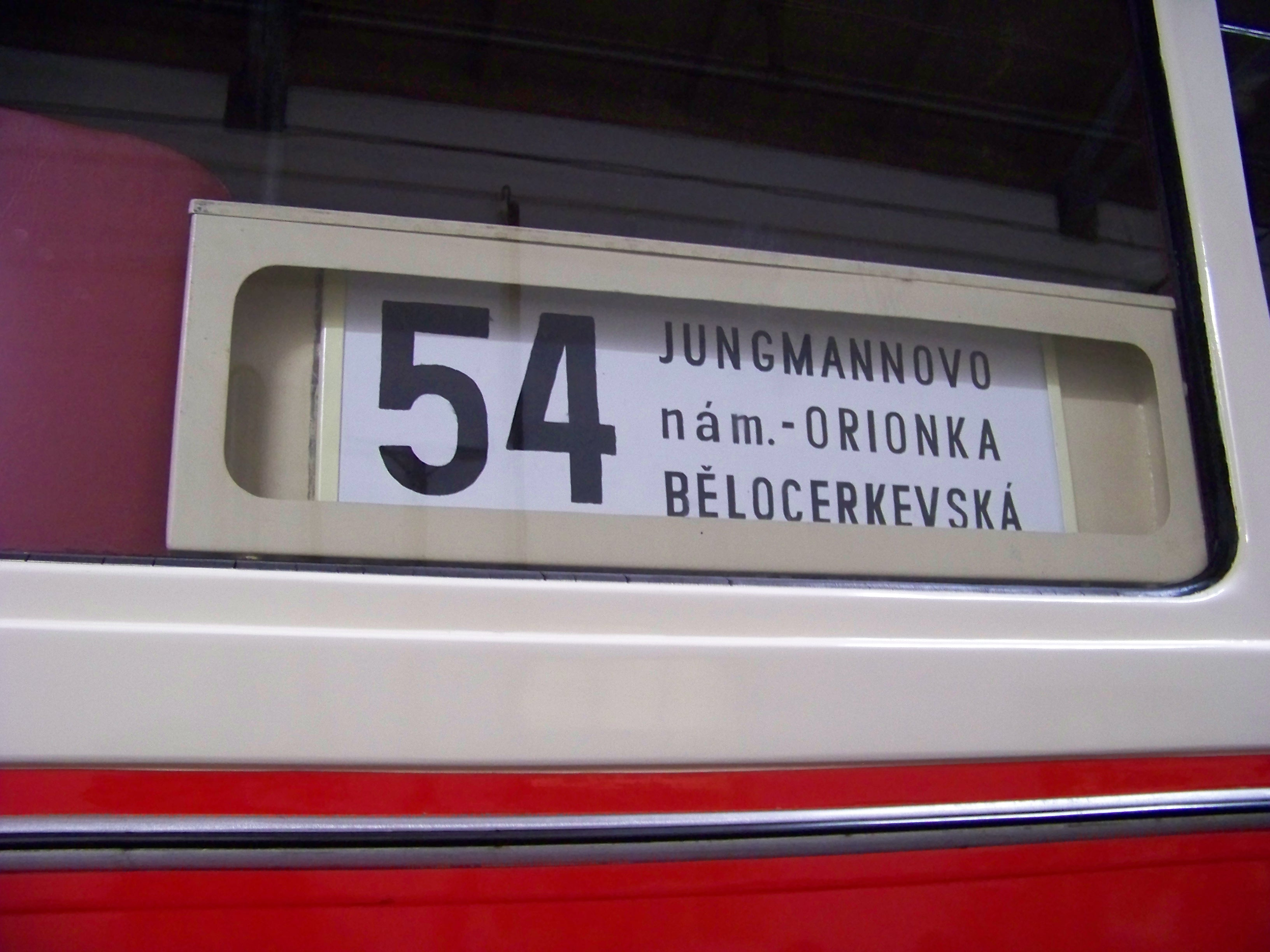 Střešovice, Prague, the Czech Republic. Střešovice Tram Depot, Urban Transport Museum. A trolleybus line board.